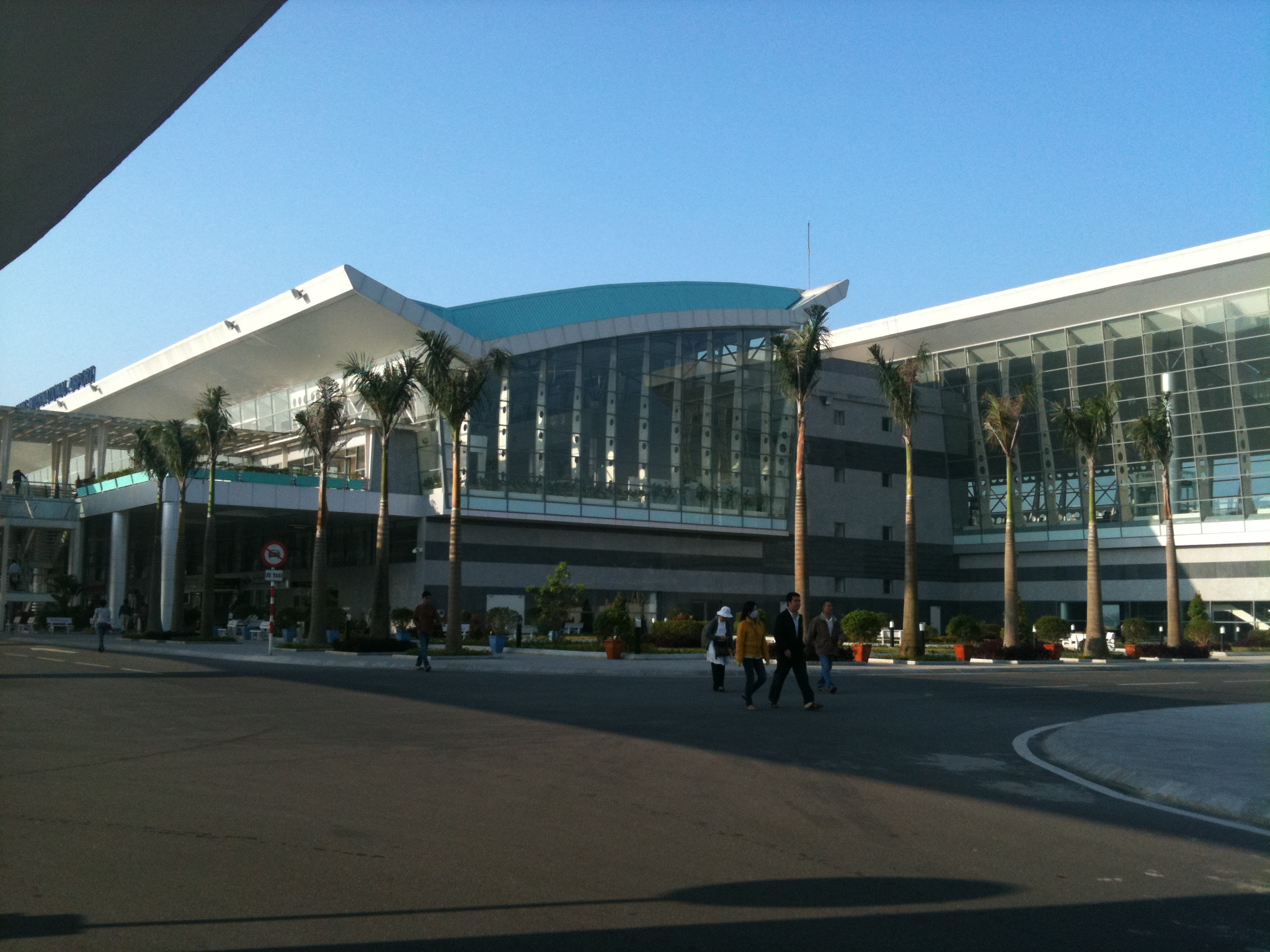 A view of the newly constructed terminal at Danang International Airport, as of March 2012.